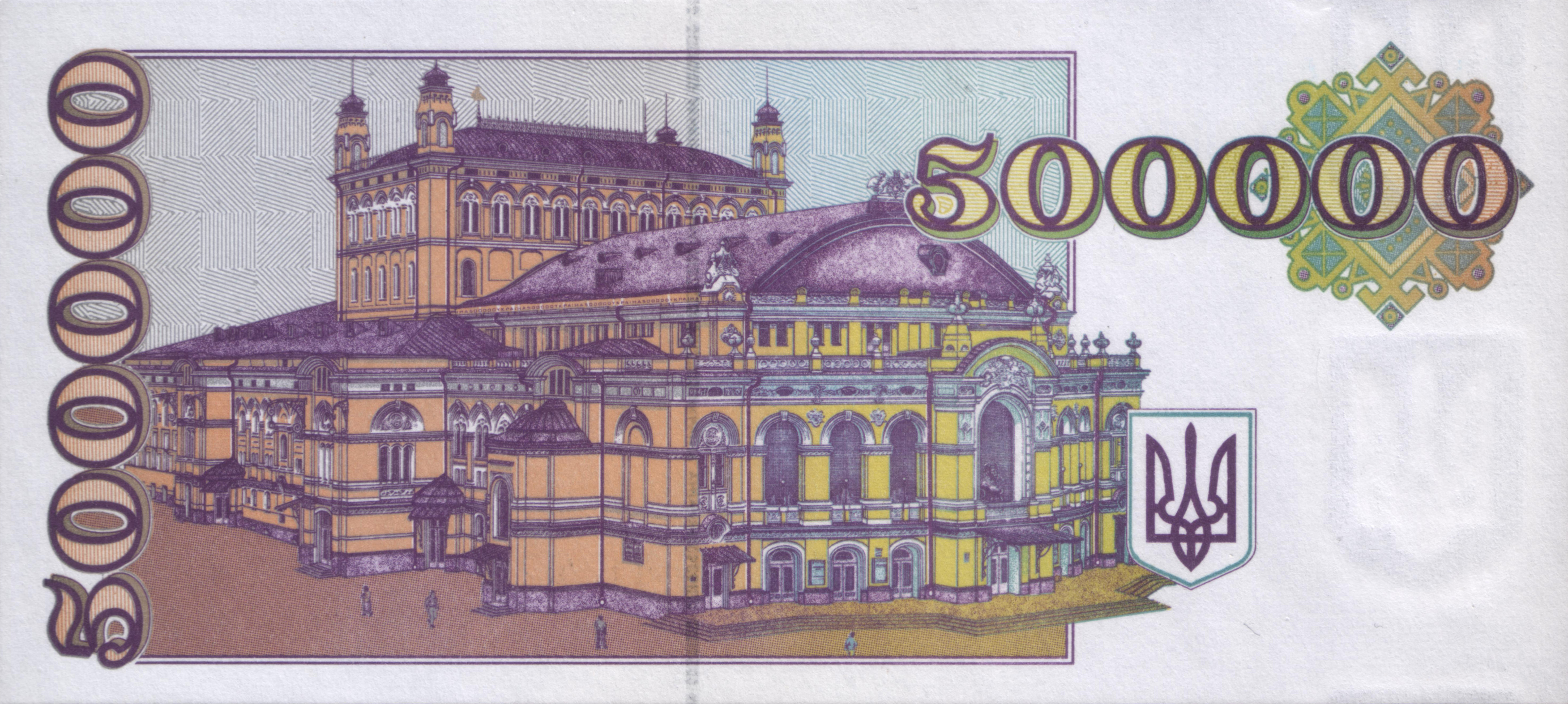 500000 karbovanets (1994)